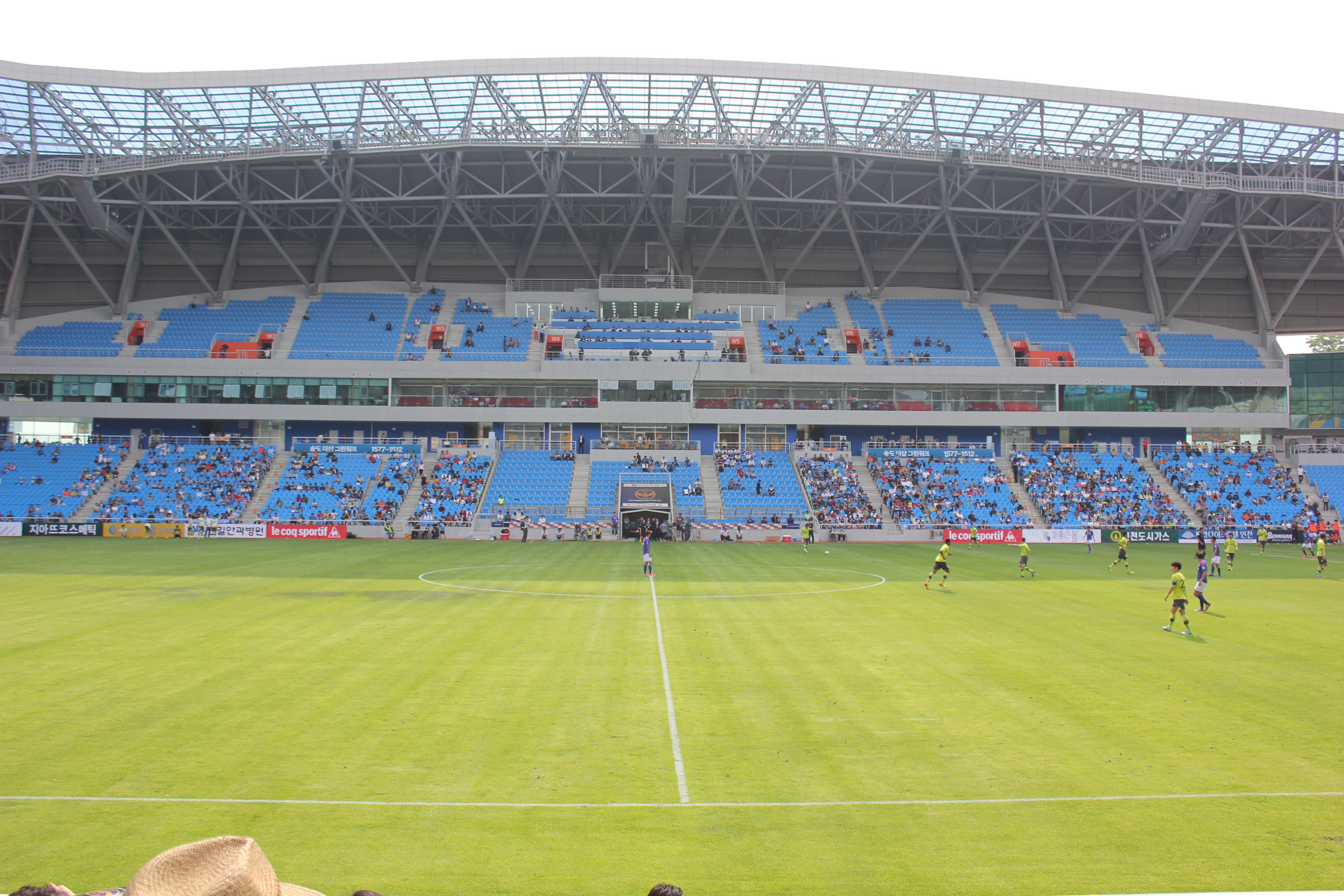 Incheon Football Stadium